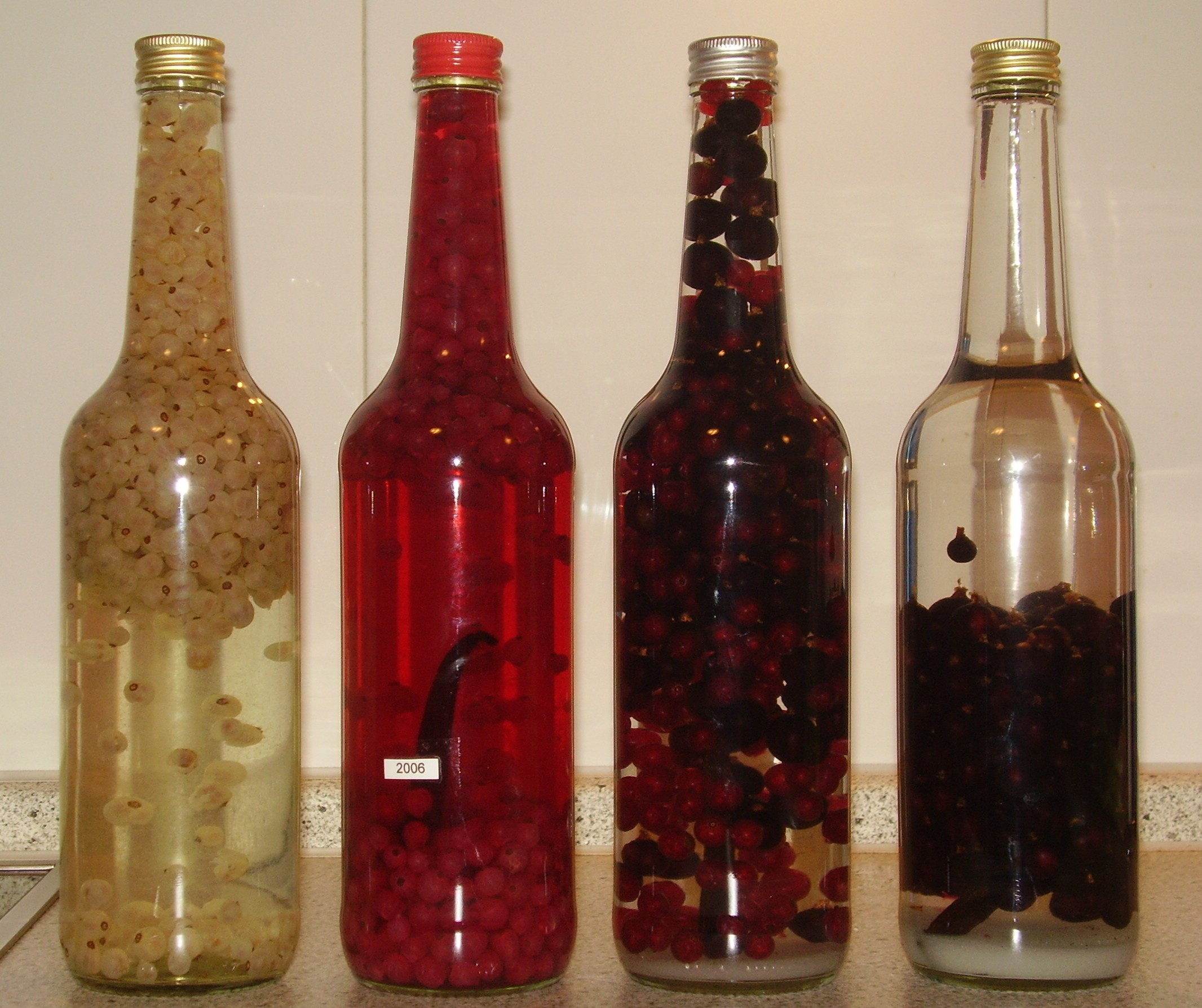 left to right: 1. white currants (since 2 weeks) 2. red currants (since 3 weeks, with vanilla pod) 3. red and black currants (freshly prepared) 4. black currants (freshly prepared)